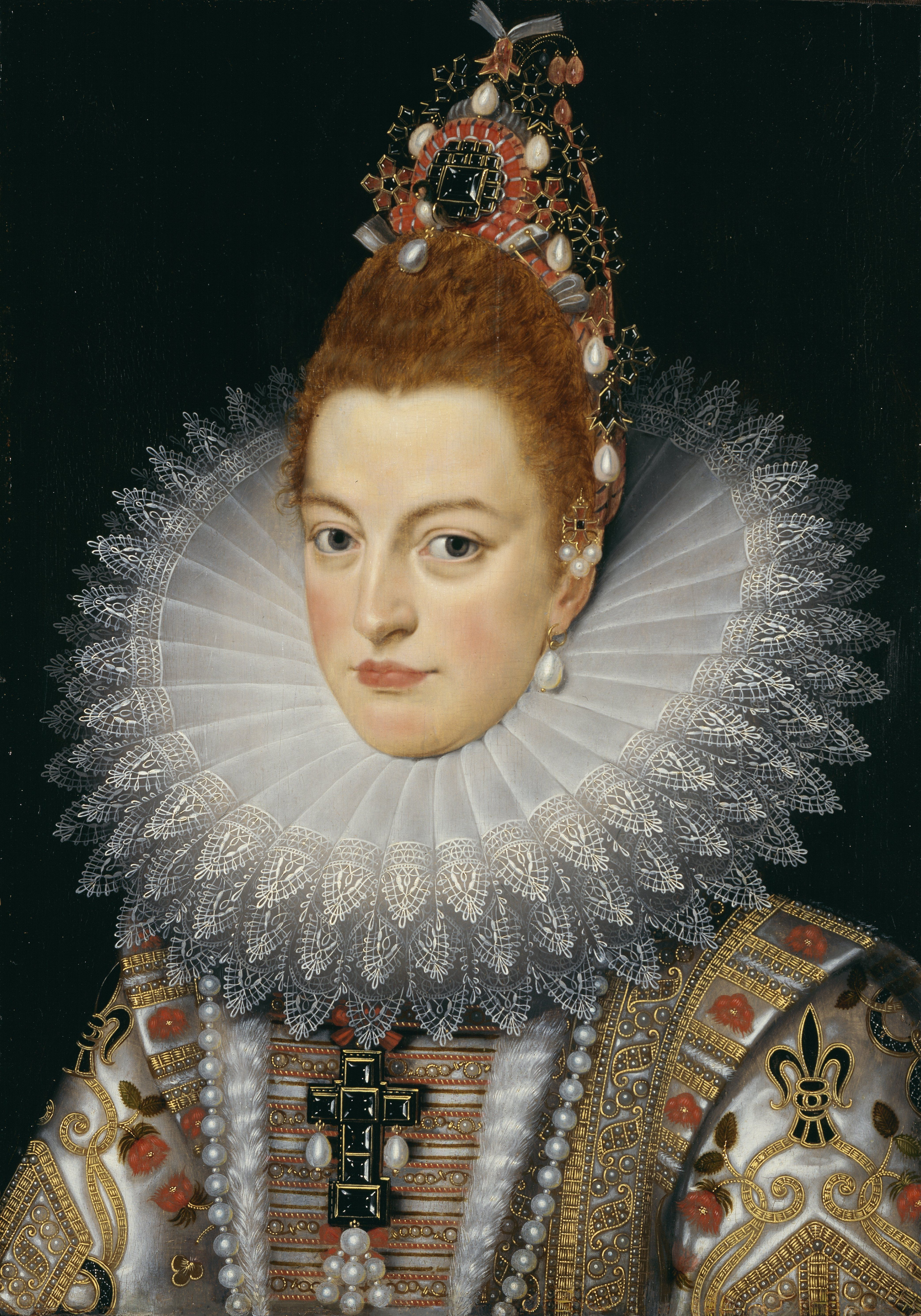 Portrait of Isabella Clara Eugenia of Spain, Archduchess of Austria